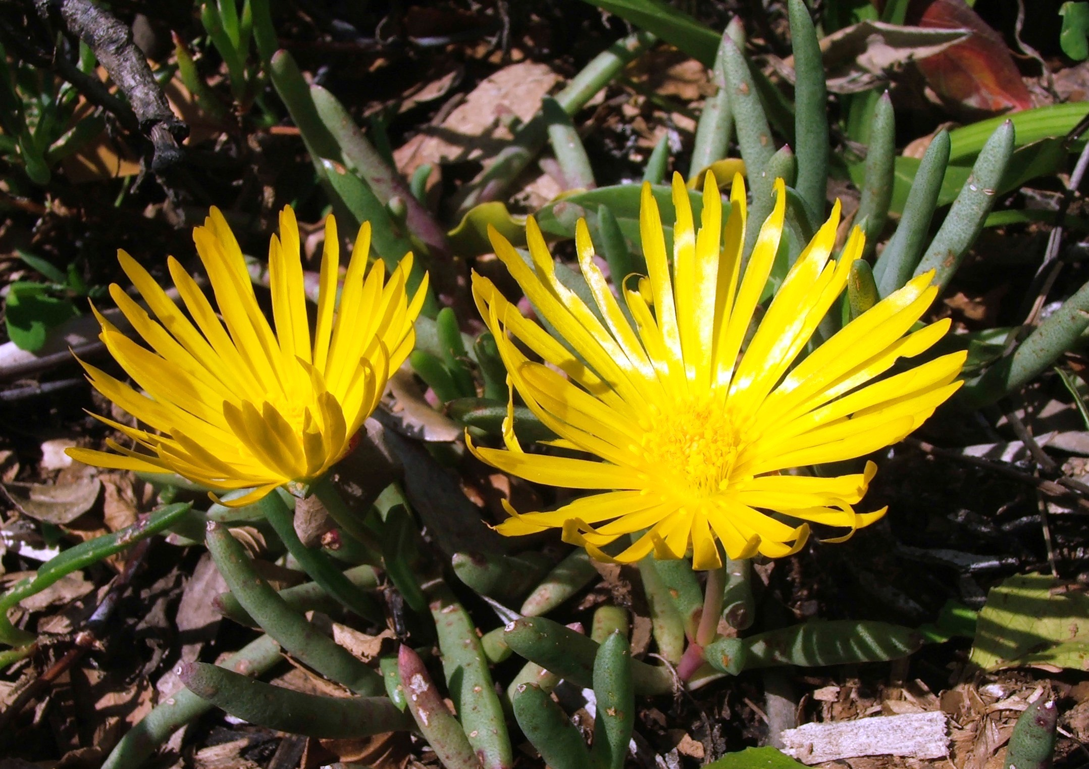 Jordaaniella dubia. A common succulent groundcover of South Africas coastal regions.